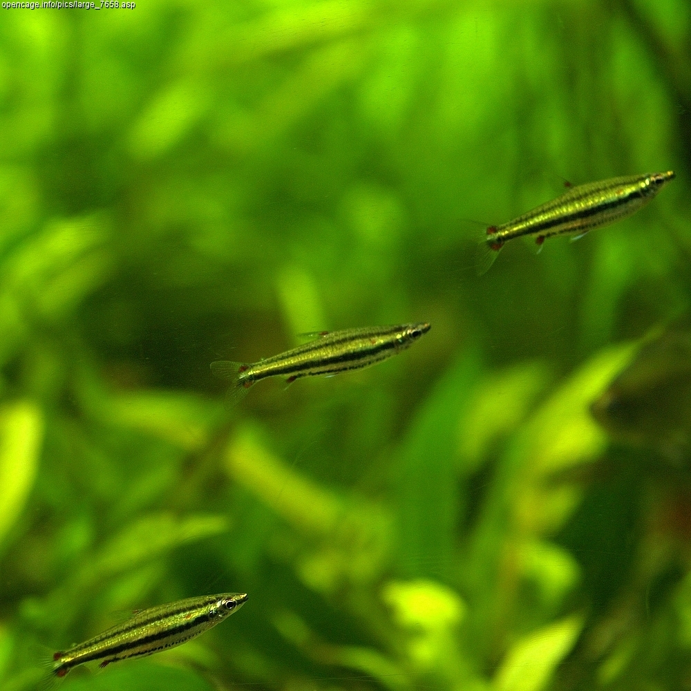 スリーラインペンシル Tree-line Pencil Species Nannostomus trifasciatus Familia Lebiasinidae Location Suma Aqualife park, KOBE, japan Other photos; Copyright OpenCage